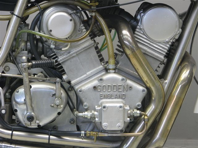 Godden 1000 cc V-twin engine